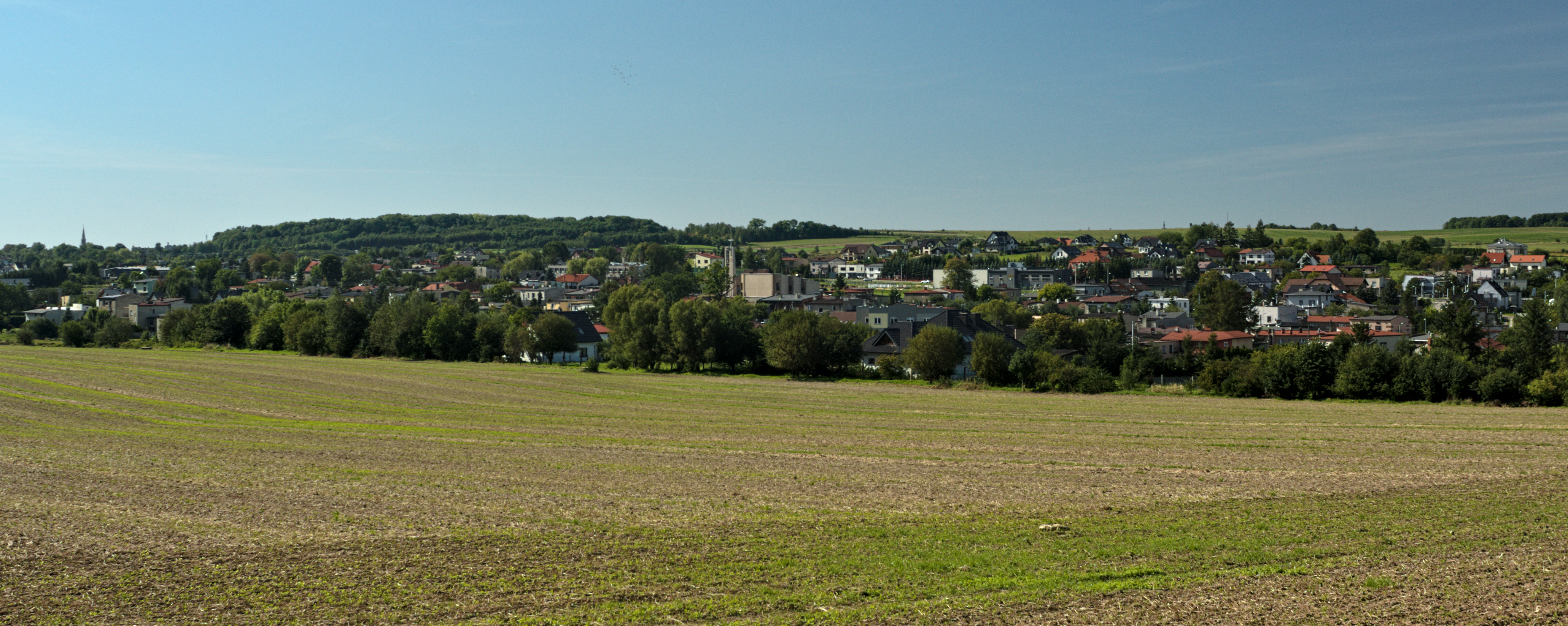 Orzech, view from the hill